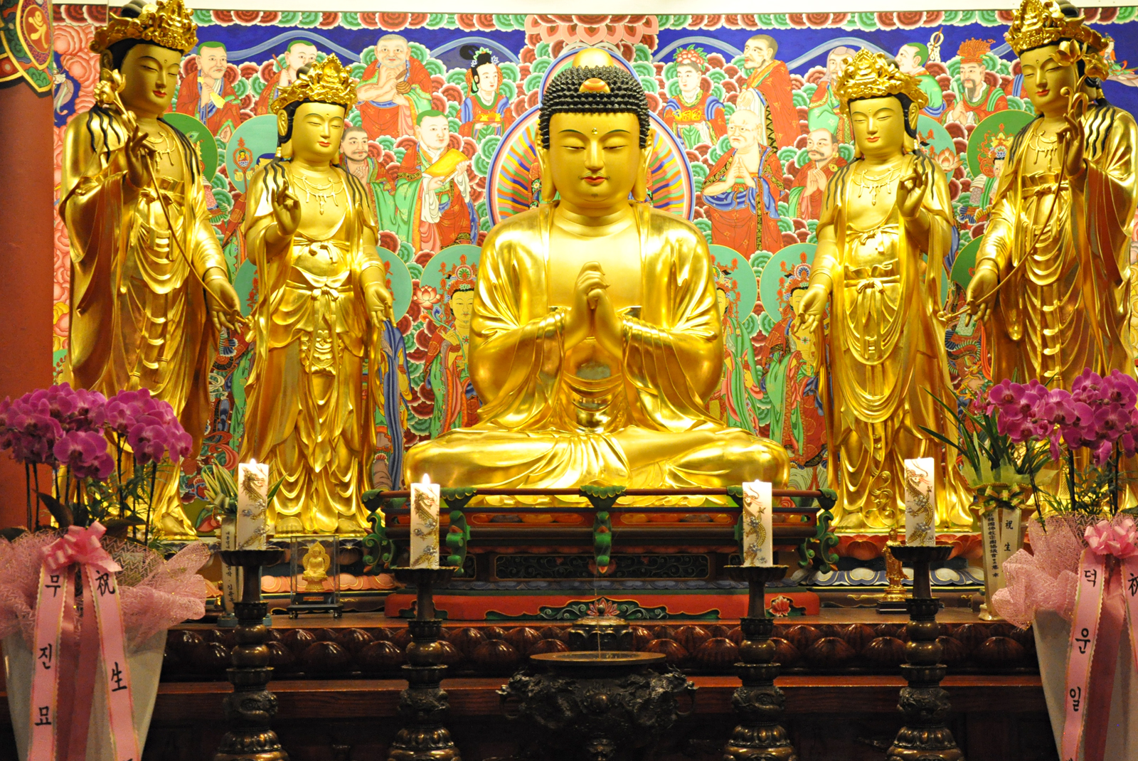 Myogak Temple2